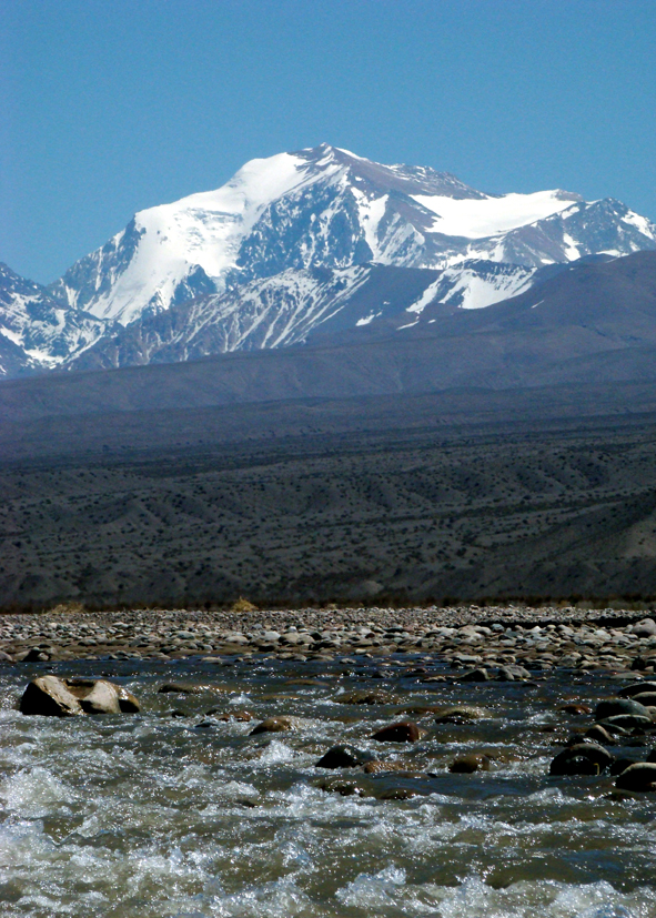 Cerro Mercedario, Cordillera de los Andes, Province of San Juan, Argentina